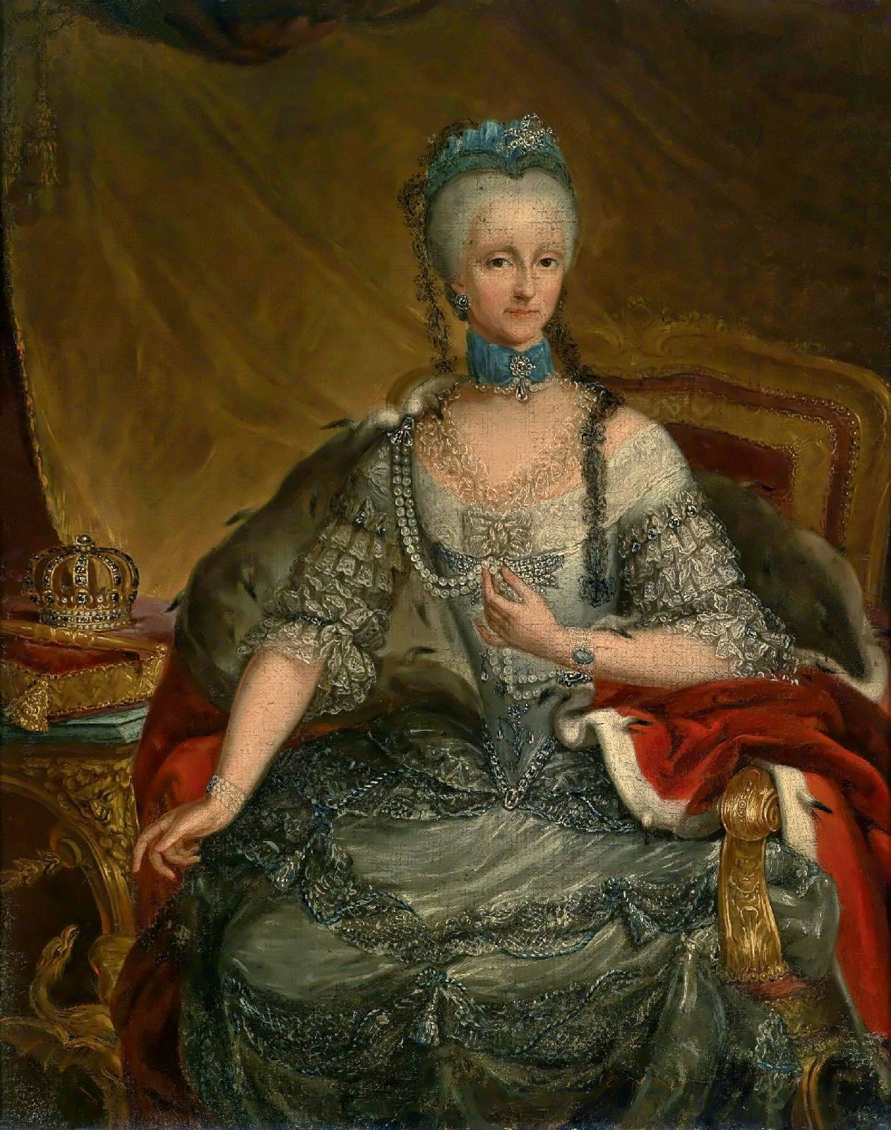 Maria Antonia of Spain, (1729-1785), Queen of Sardinia.